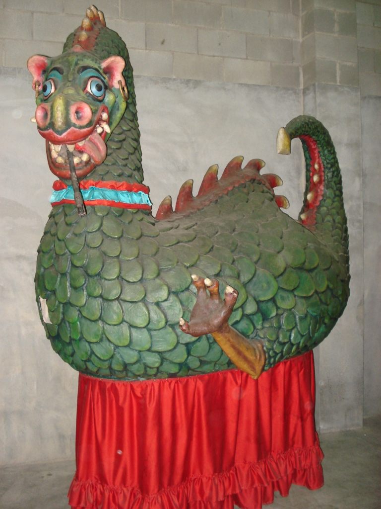 Draca of Solsona's Carnival